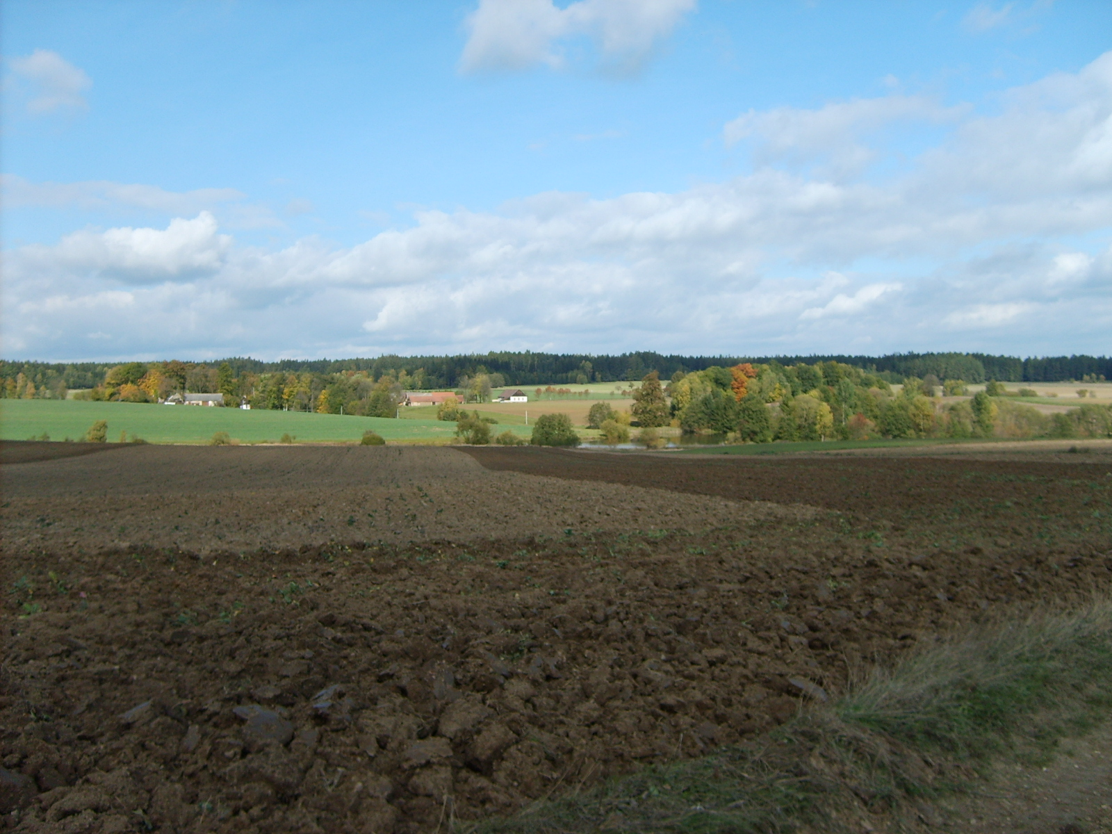 General view to Petrova Lhota, municipality Studený. Czech rep.